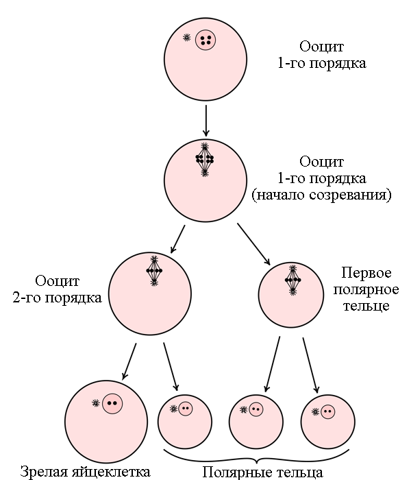 Diagram showing the reduction in number of the chromosomes in the process of maturation of the ovum. Figure 5 from Gray's Anatomy.